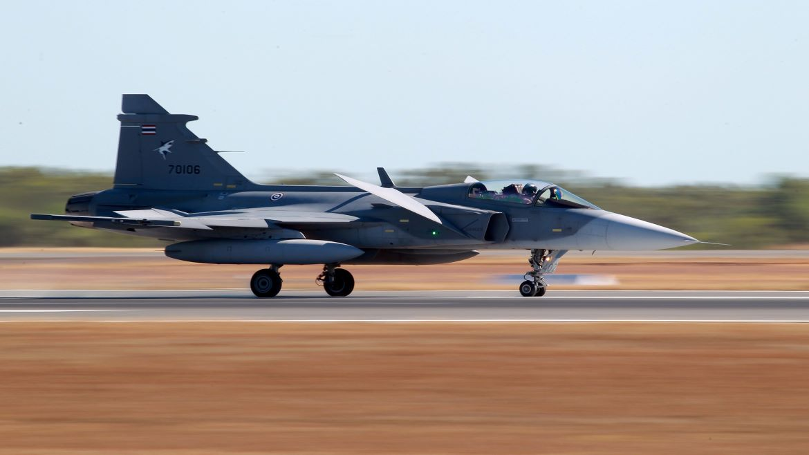 Royal Thai Air Force Gripens recently deployed to Australia for major exercises.